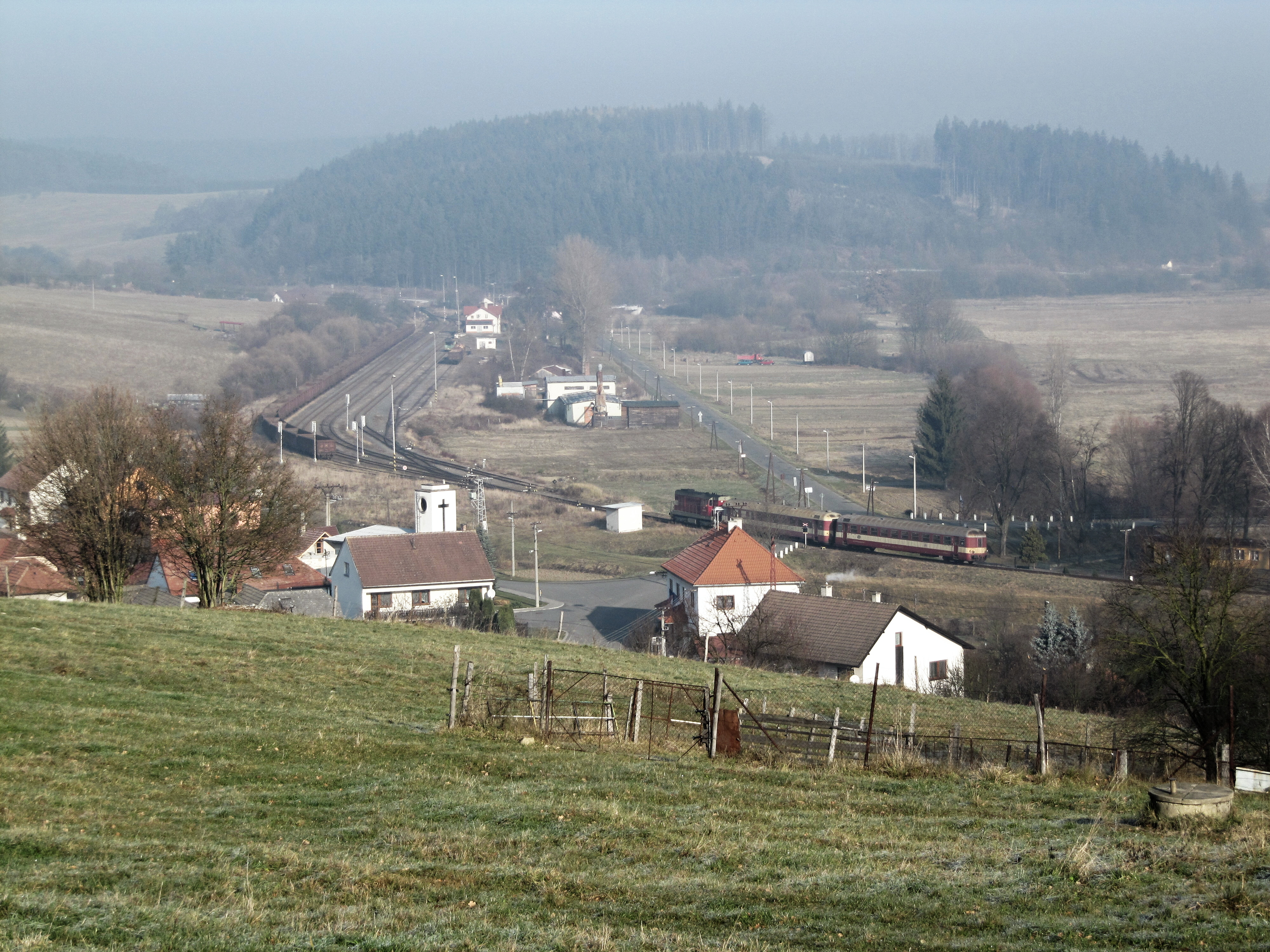 Bohuslavice nad Vláří in Zlín District, Czech Republic. General view, the arrival of the train.